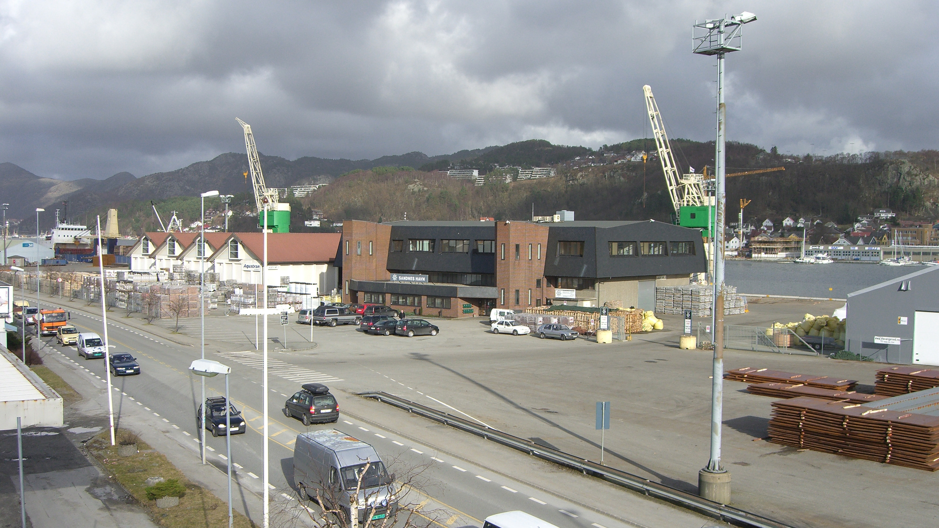 Indre havn docks in Sandnes, Norway